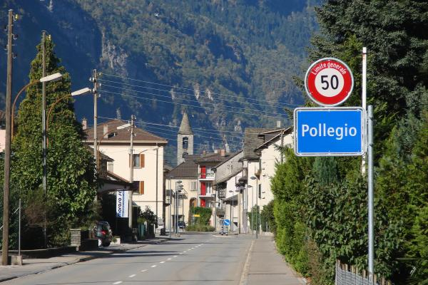 panorama